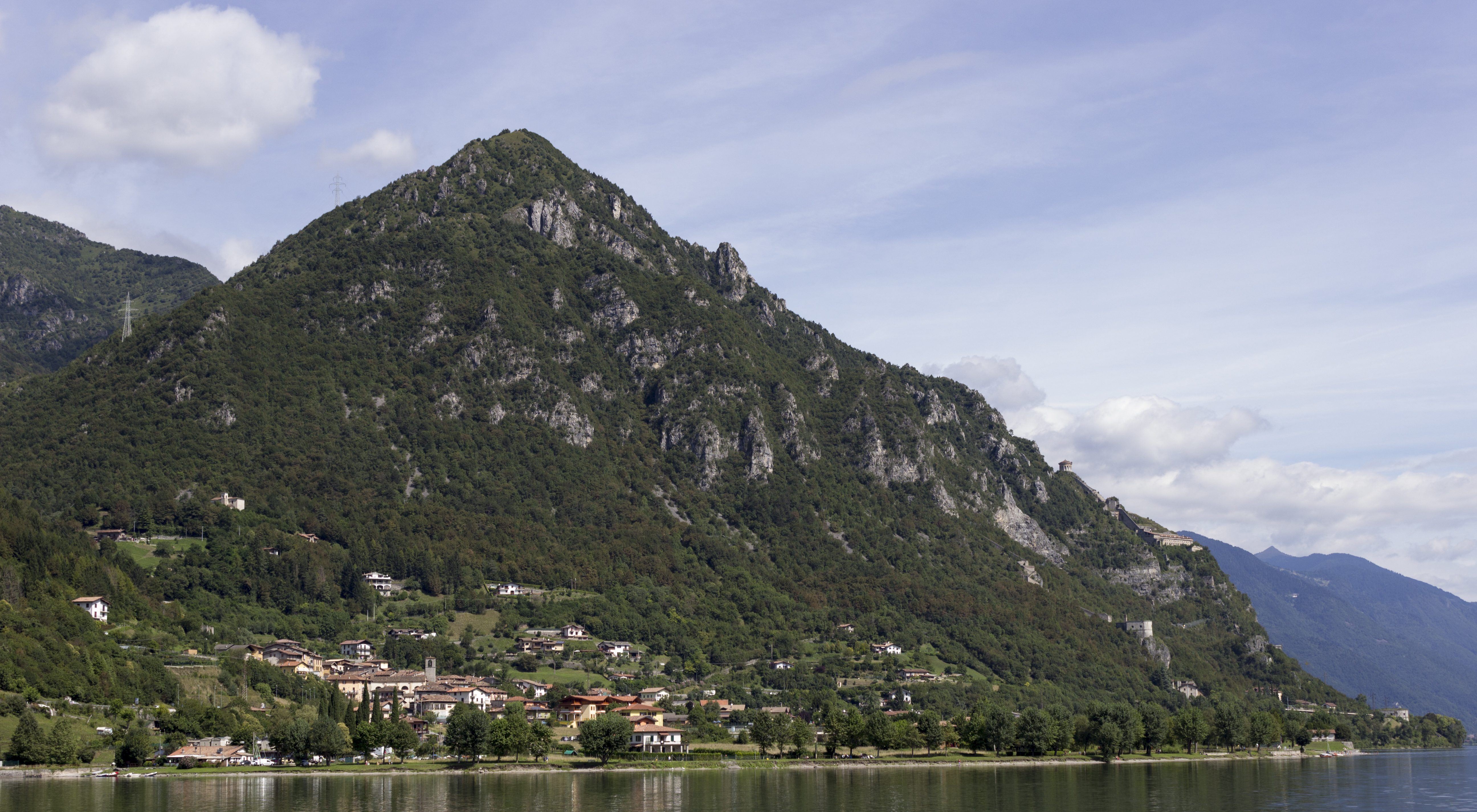 View on Anfo from the lake.